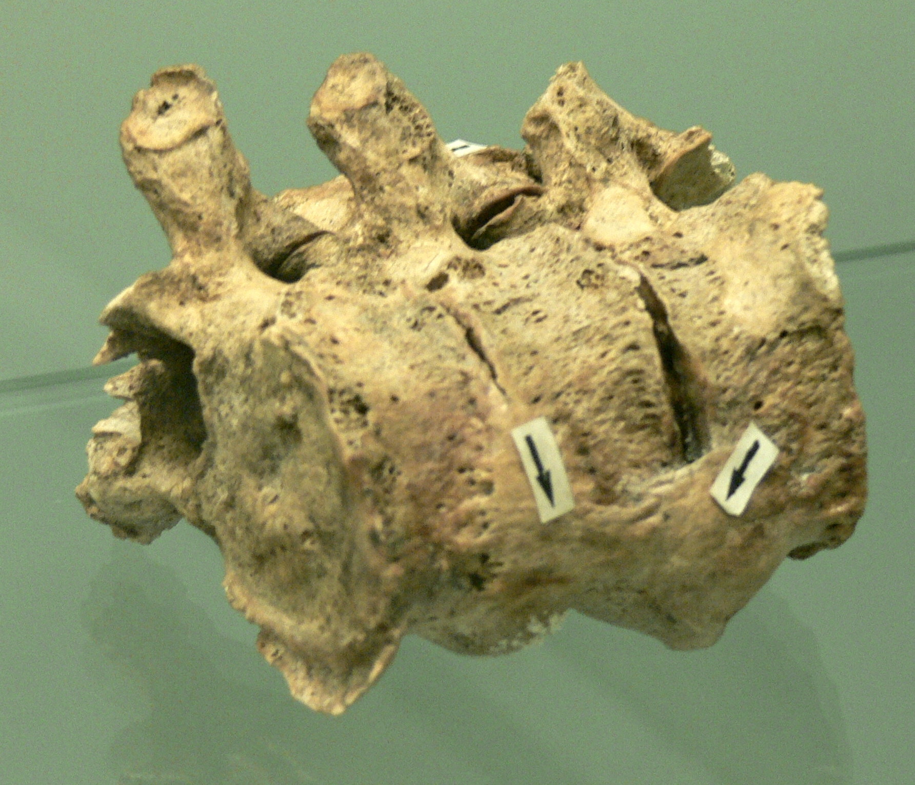 Naturns ( South Tyrol ). Saint Proculus museum: Spondylarthrosis of an man ( 40-60 years ) from the early middle ages.